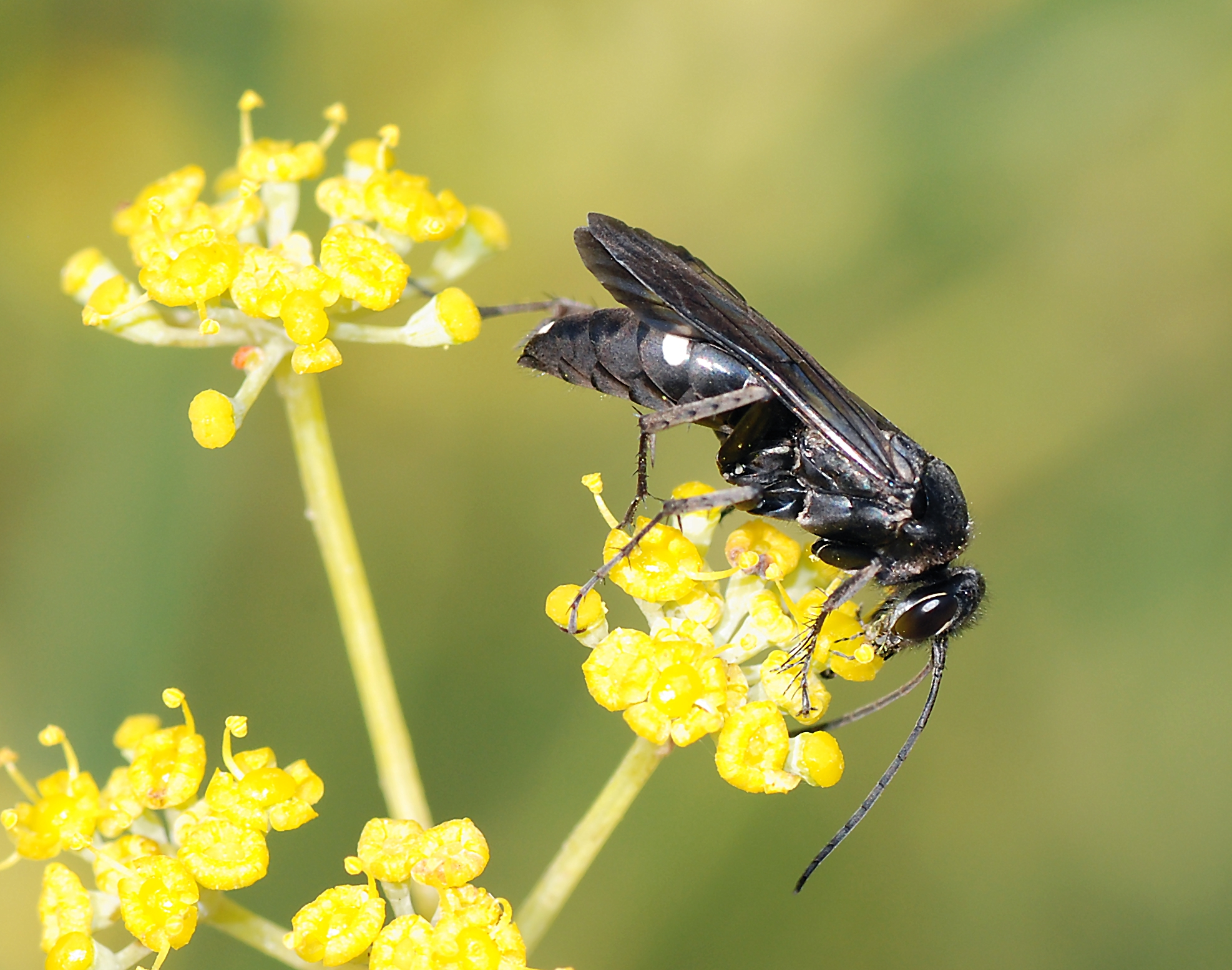 A spider-hunting wasp (Auplopus carbonarius ?)